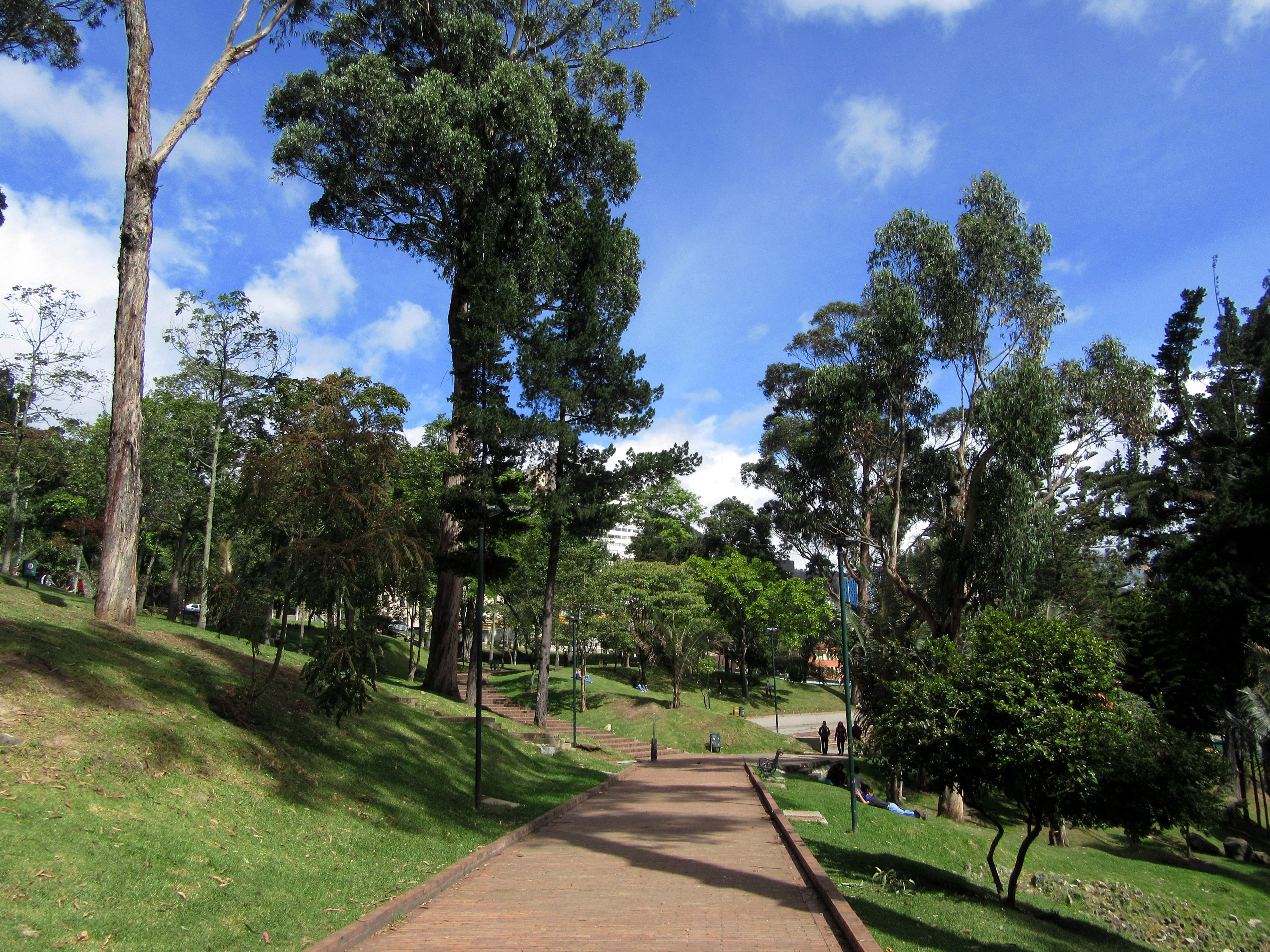 Bogotá